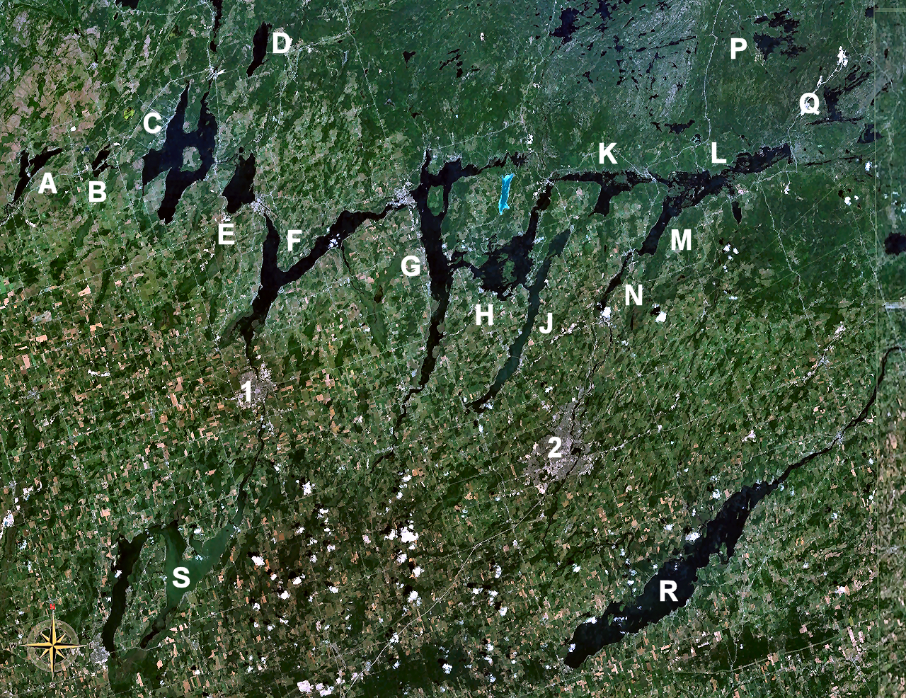 Kawartha Lakes, central Ontario, Canada. Legend: A - Canal Lake B - Mitchell Lake C - Balsam Lake D - Four Mile Lake* E - Cameron Lake F - Sturgeon Lake G - Pigeon Lake H - Buckhorn Lake J - Chemong Lake K - Lower Buckhorn Lake L - Stony Lake M - Clear Lake N - Katchewanooka Lake P - Jack Lake* Q - Kasshabog Lake* R - Rice Lake S - Lake Scugog 1 - Town of Lindsay 2 - City of Peterborough All lakes are on the Trent-Severn Waterway, except those marked with *.